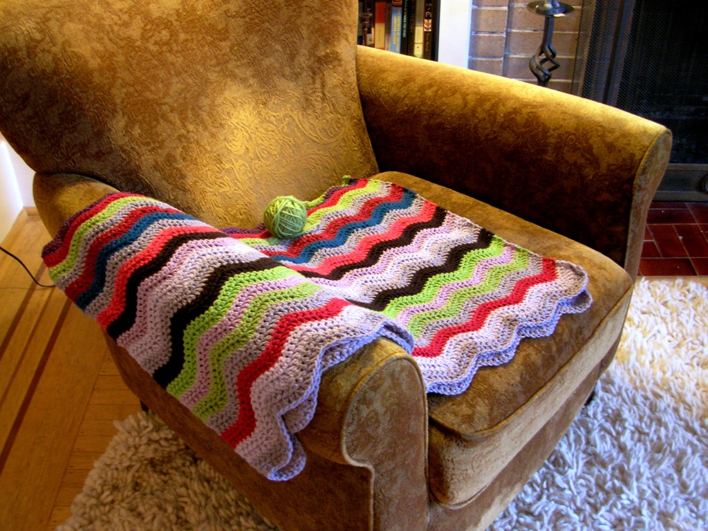 An Afghan blanket (in progress) on a chair. From Ripple-Along and Flickr